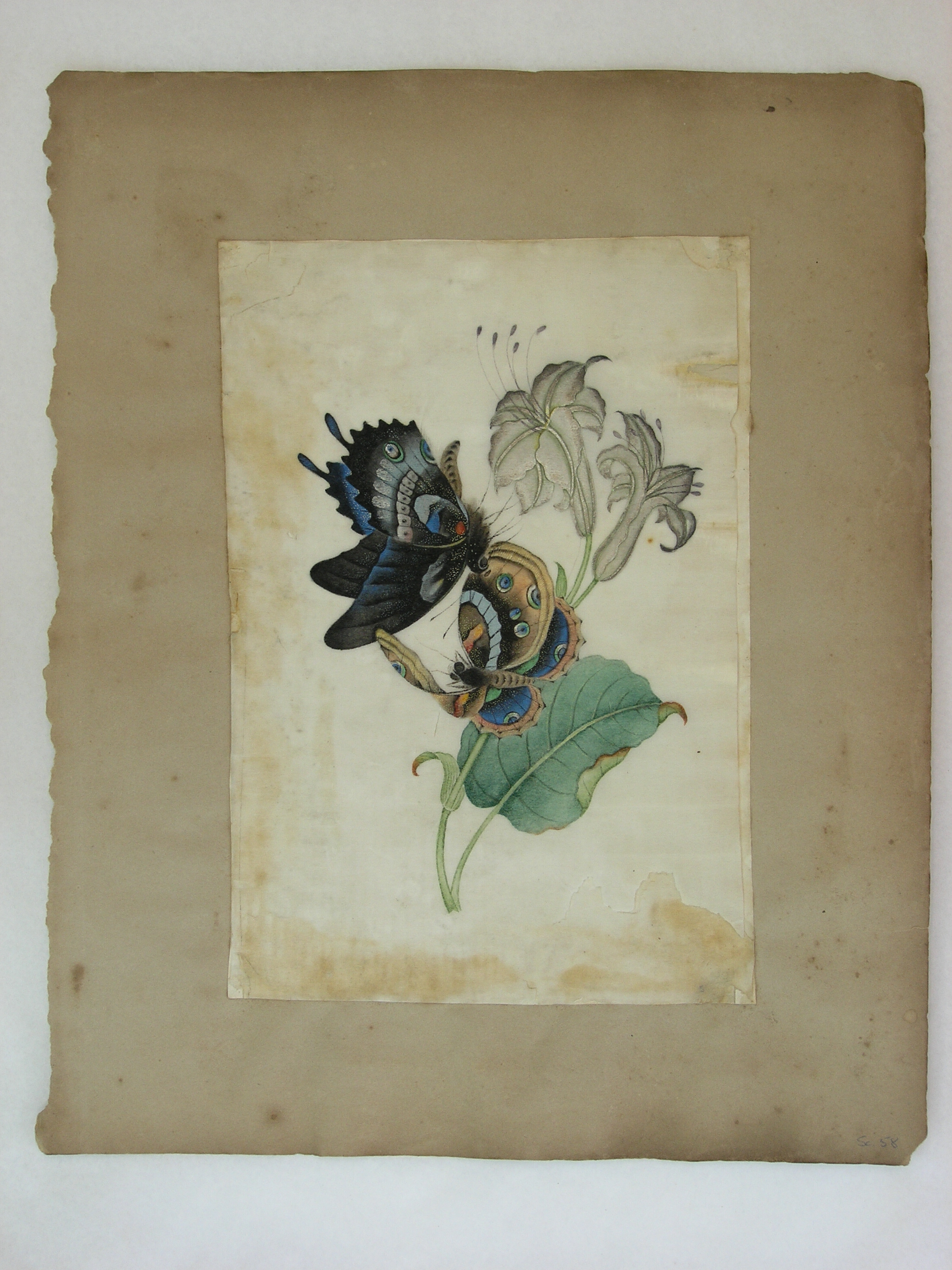 Painting painting on rice paper depicting two butterflies on white flowers; the rice paper is attached to brown paper backing